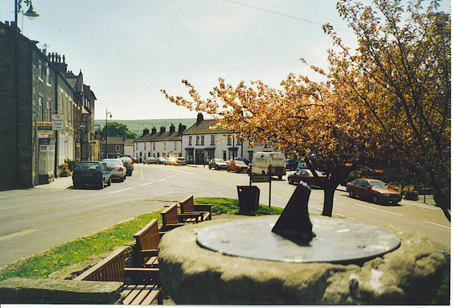 Middleton-in-Teesdale.